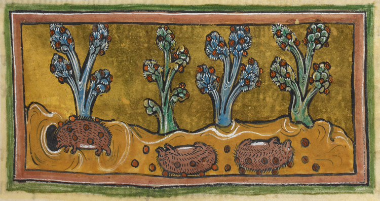 Illustration of hedgehogs picking up grapes on their spines; detail of a miniature from the Rochester Bestiary, BL Royal 12 F xiii, f. 45r. Held and digitised by the British Library.